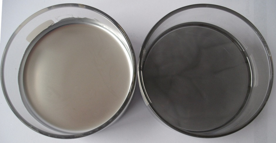 Demonstration of leafing effect